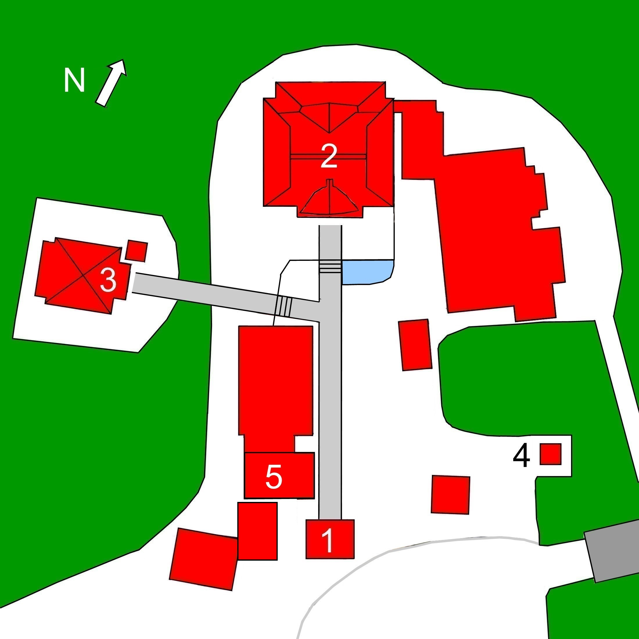 Layout of Emmei-ji (Imabari), Ehime Prefecture, Japan